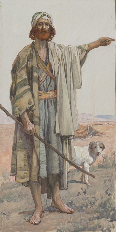 Amos, circa 1896–1902, by James Jacques Joseph Tissot (French, 1836-1902)